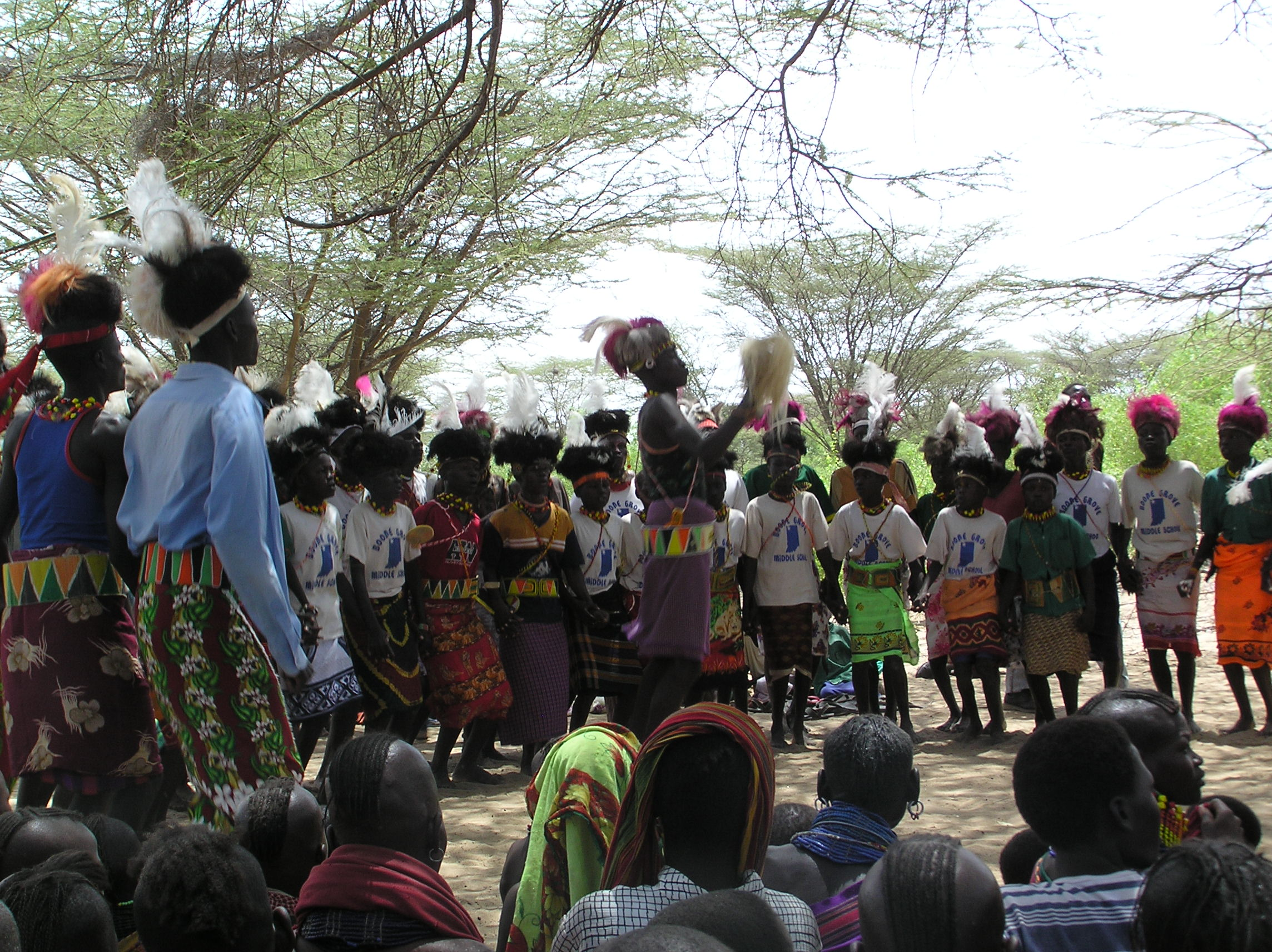 Turkana children presenting traditional dance with ostrich-feather headresses and traditional dance costumes.